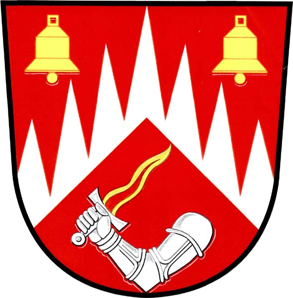 Municipal coat of arms of Vísky village, Blansko District, Czech Republic.